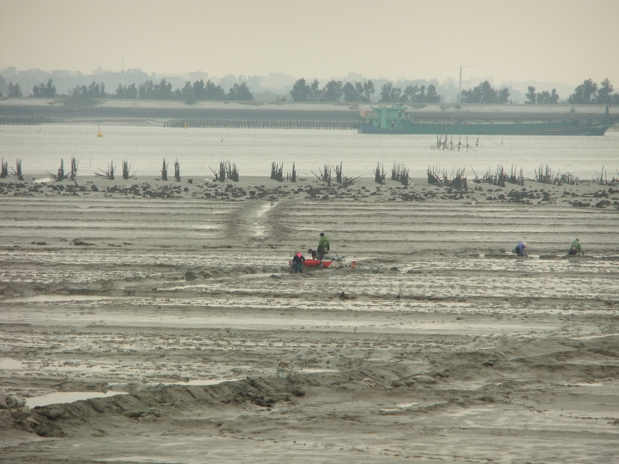 Anhai Bay is the estuary of the Shijing River. It separates Shijing Town (west side) from Dongshi town (east side). This is a tidal estuary; much of its bottom is exposed in low tide, and is used for something that looks like fishing and a form of oyster cultivation. These photos were taken from the west side of the bay, between Shijing and Shuitou; Dongshi Town's skyline can be seen in the background of some photos.